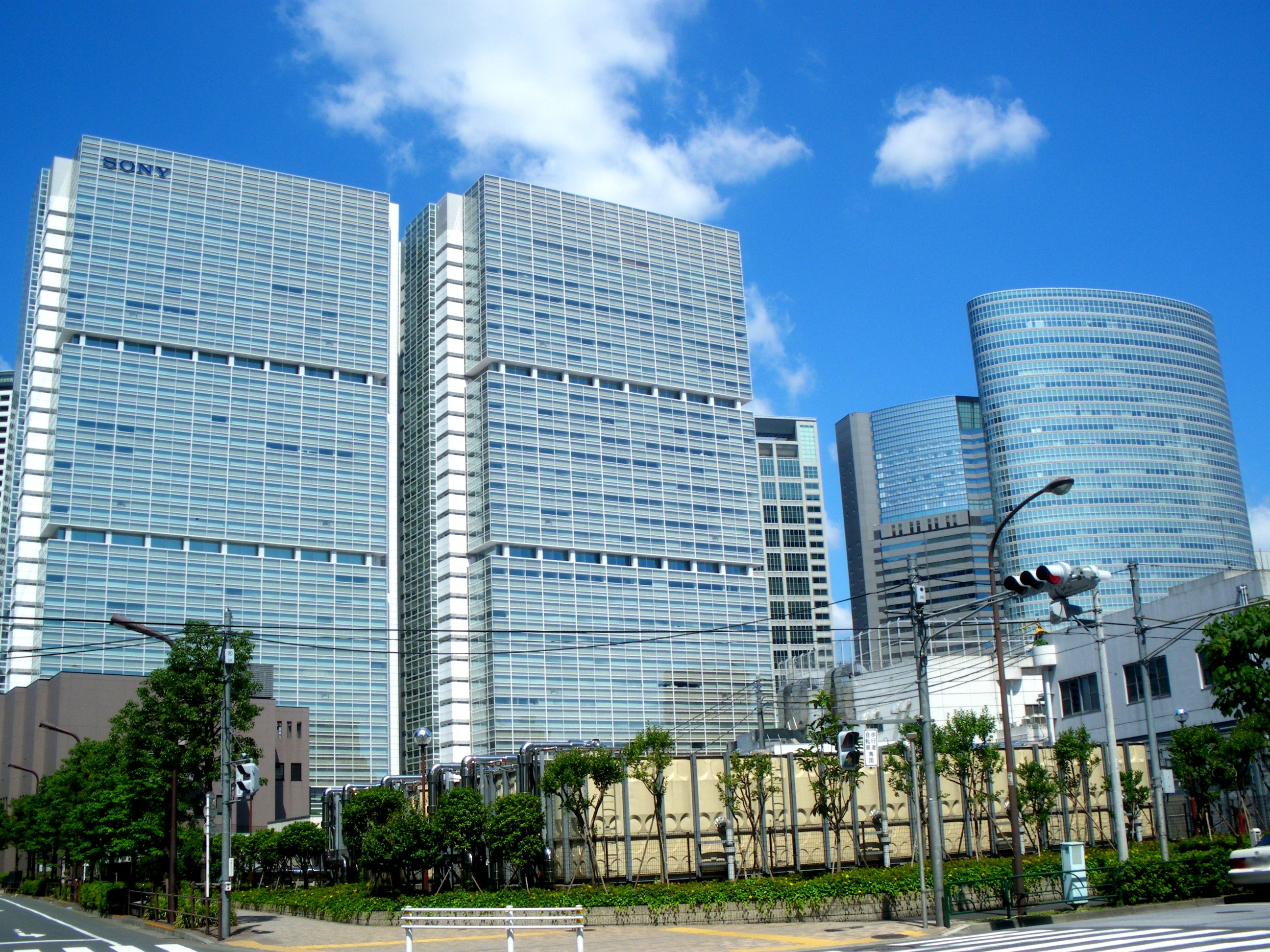 A photo of Shinagawa Intercity overview,Konan Minato-ku,Tokyo,Japan.